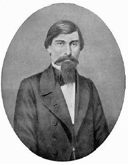 Alecu Russo (1817 - 1859), Moldavian Romanian writer, literary critic and publicist.